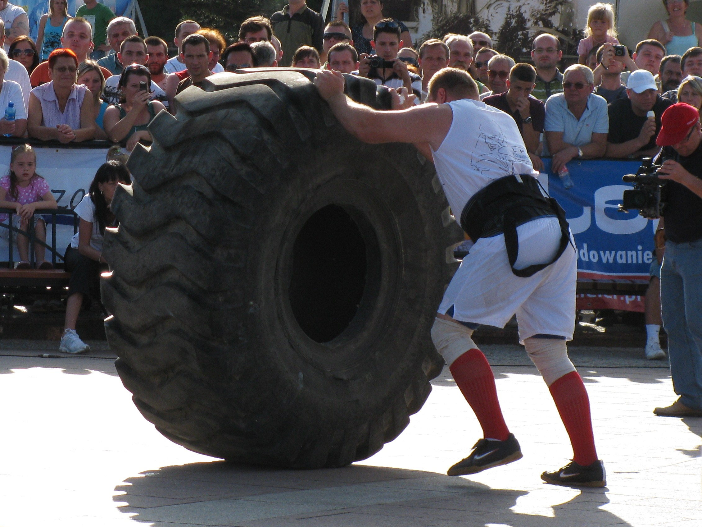 Tarmo Mitt - a strength athlete from Estonia at the Tyre Flip.